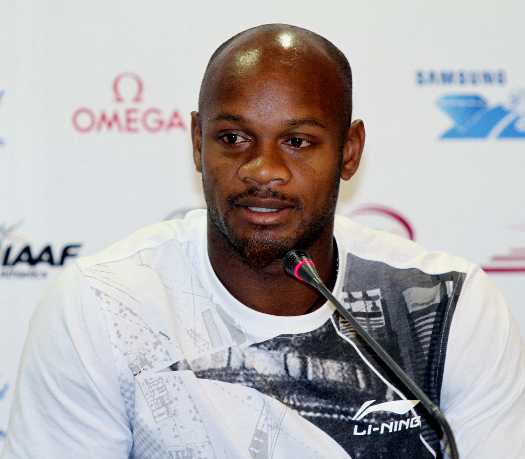 Jamaican sprinter Asafa Powell attends a Press conference prior to the 2012 Diamond League in Doha. Picture by Vinod Divakaran